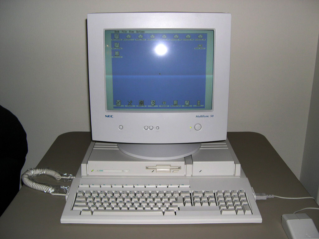 Atari TT030 computer, Tim Kovack, This is my own personal computer that I took a picture of to share on wiki's TT030 page.